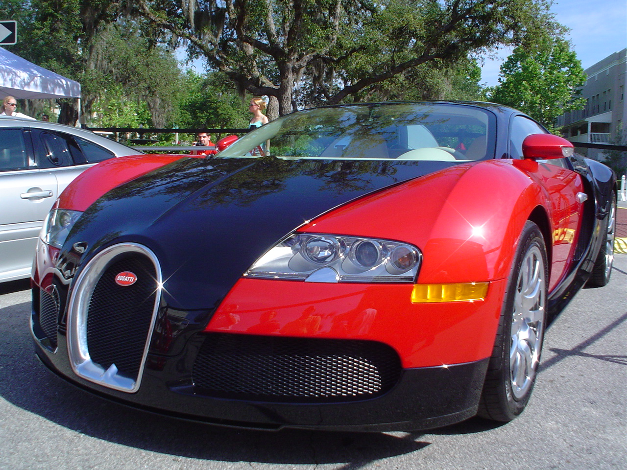 Very first Bugatti Veyron in the United States. April 2006 in Celebration, FL. Owner Don Wallace. CLK-GTR #01 on the left.